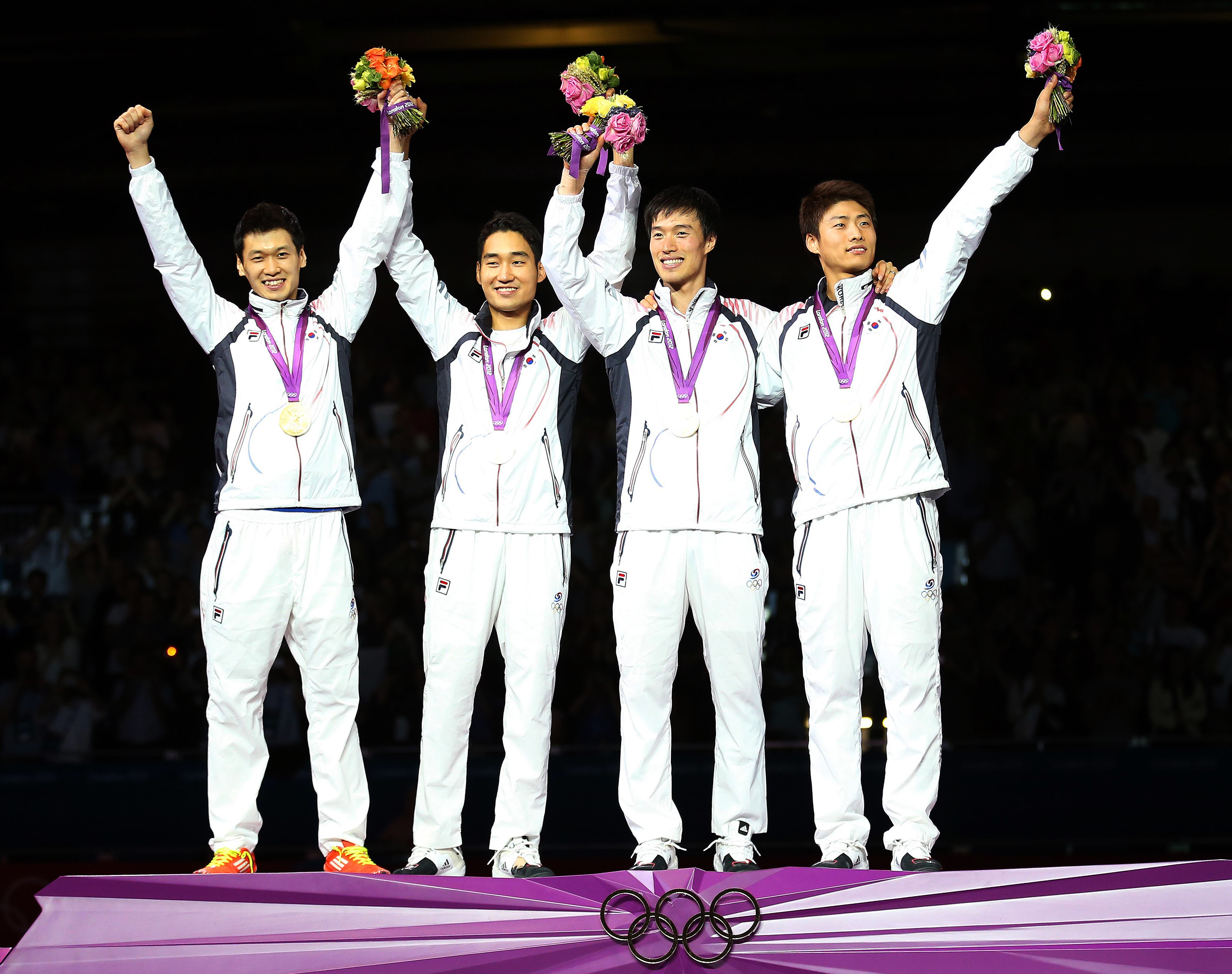 2012 London Olympic Games Korea won the gold medal men's team Saber fenching. Gu Bongil, Kim Junghwan, Won Woo-young and Oh Eunseok 2012. 08. 05. hoto by Korean Olympic Committee Ministry of Culture, Sports and Tourism Korean Culture and Information Service 2012 런던 올림픽 한국 남자 사브르 단체전 금메달 획득 구본길, 김정환, 원우영, 오은석 사진제공 - 대한체육회 문화체육관광부 해외문화홍보원